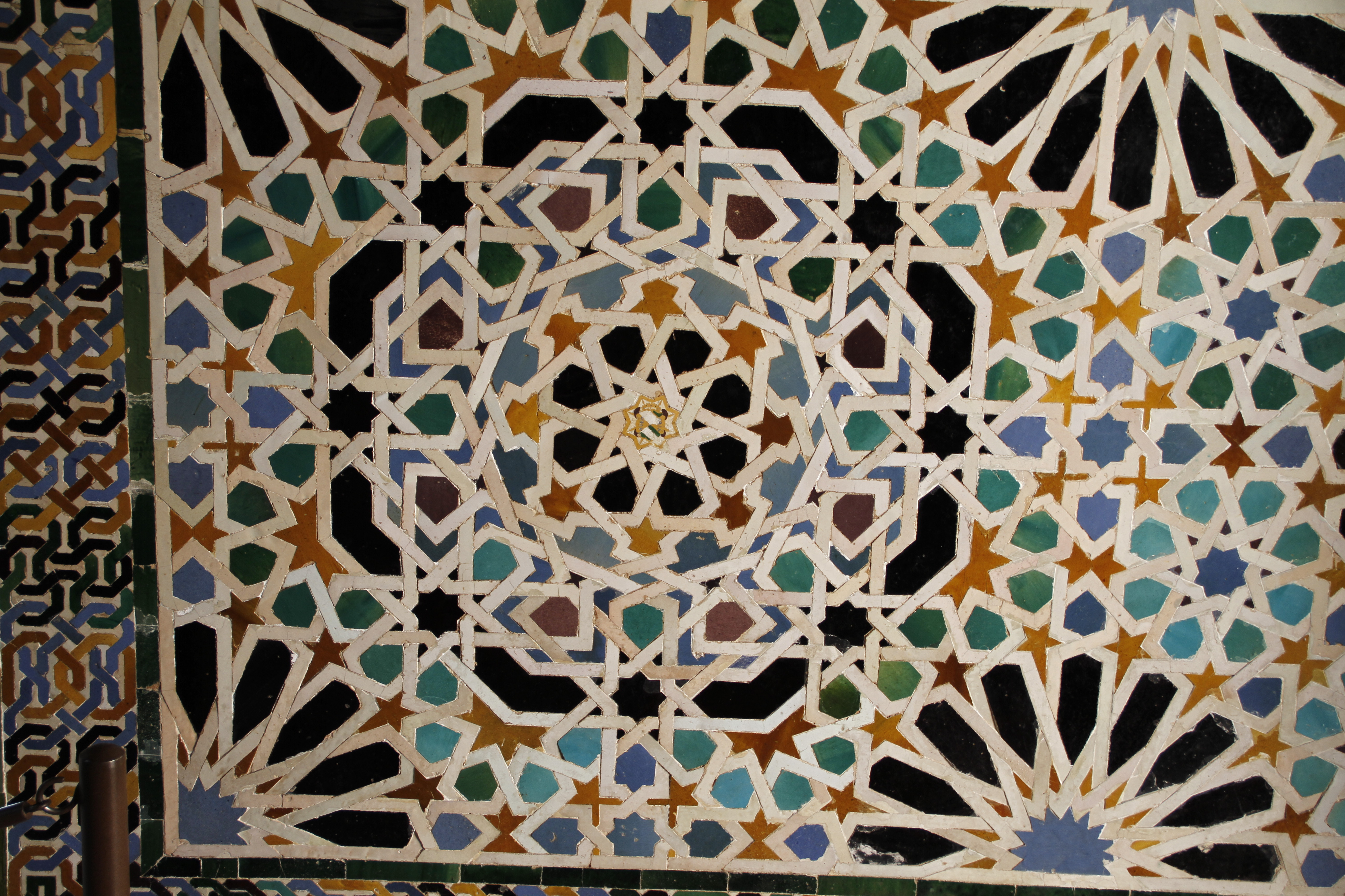 Interior of Cuarto Dorado